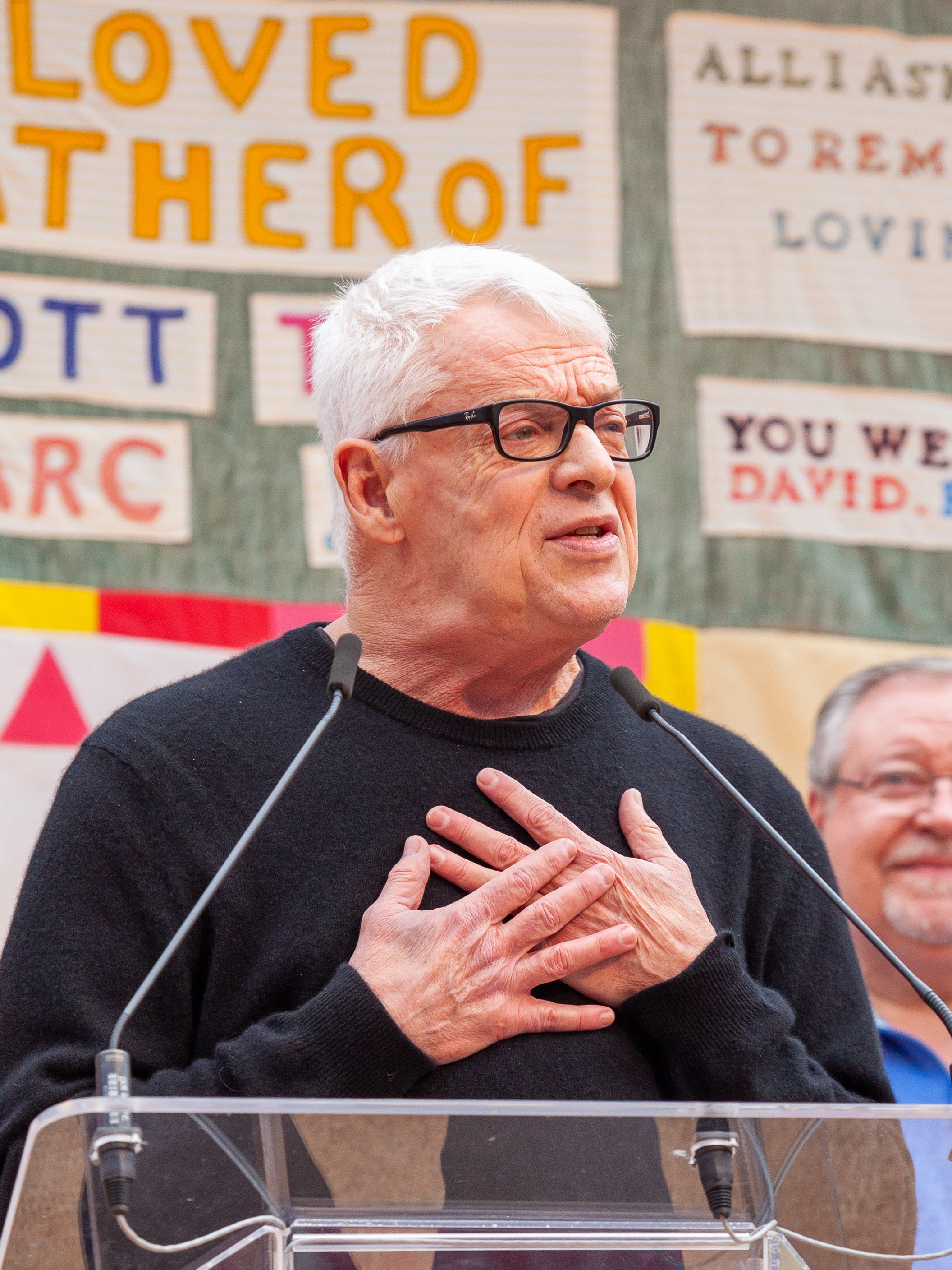 AIDS Memorial Quilt co-founder Cleve Jones speaks at the National AIDS Memorial on World AIDS Day 2019.